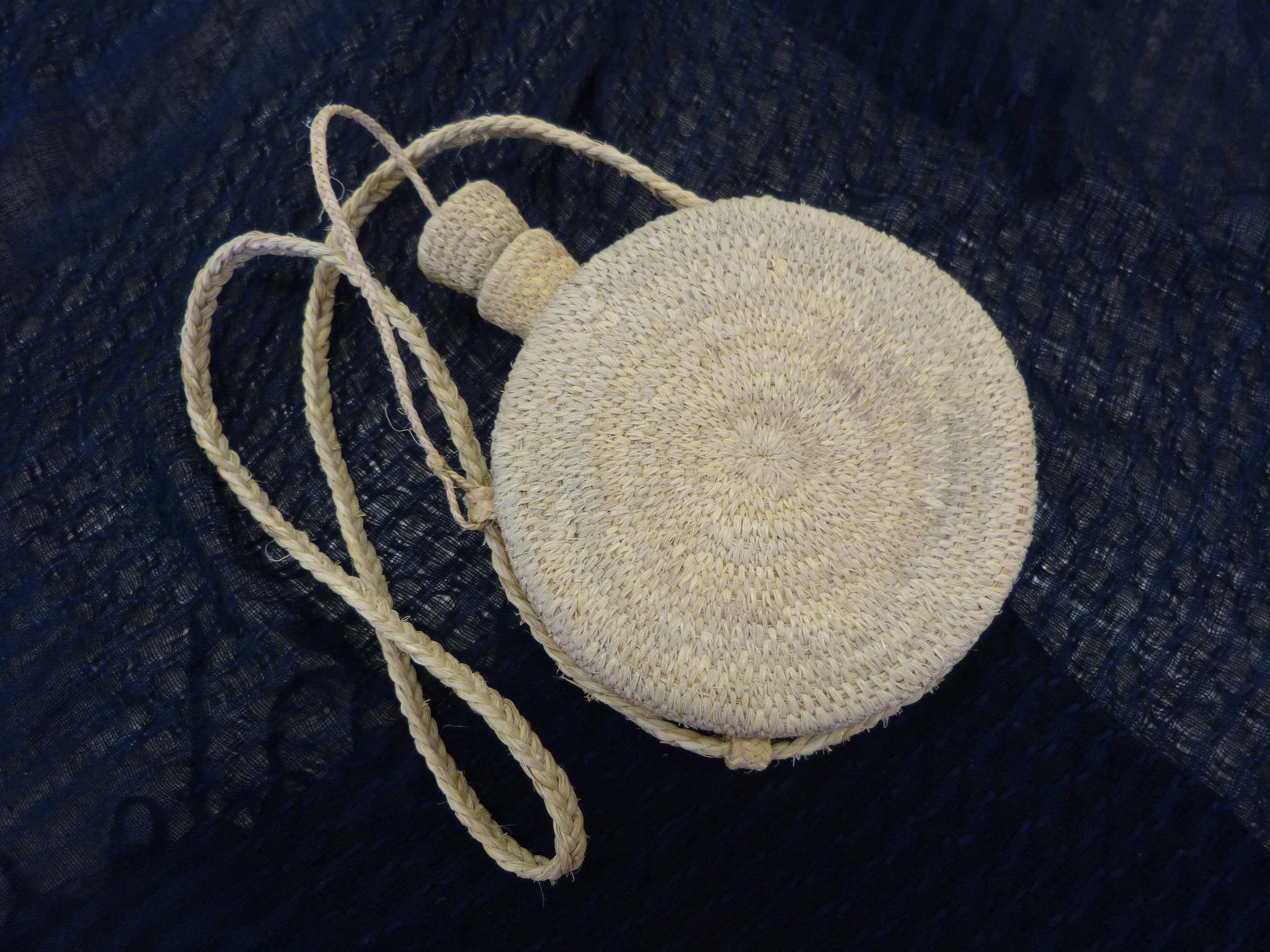 esparto canteen made by Daniel Garcia